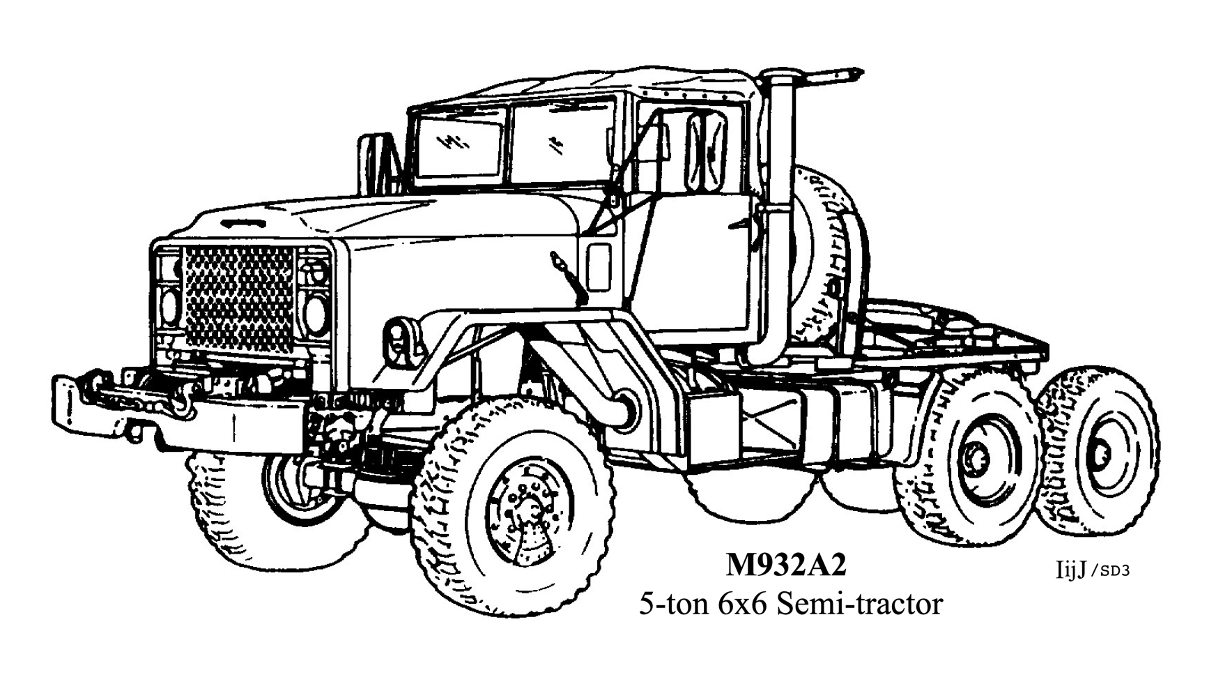 M932A2 "Truck, Tractor, 5-ton, 6x6" drawing from an US Army Technical Manual, labeled and cropped for size